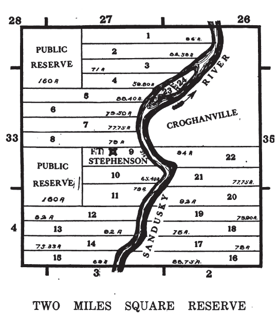 a tract in the Ohio Lands called the Two Mile Square Reserve.